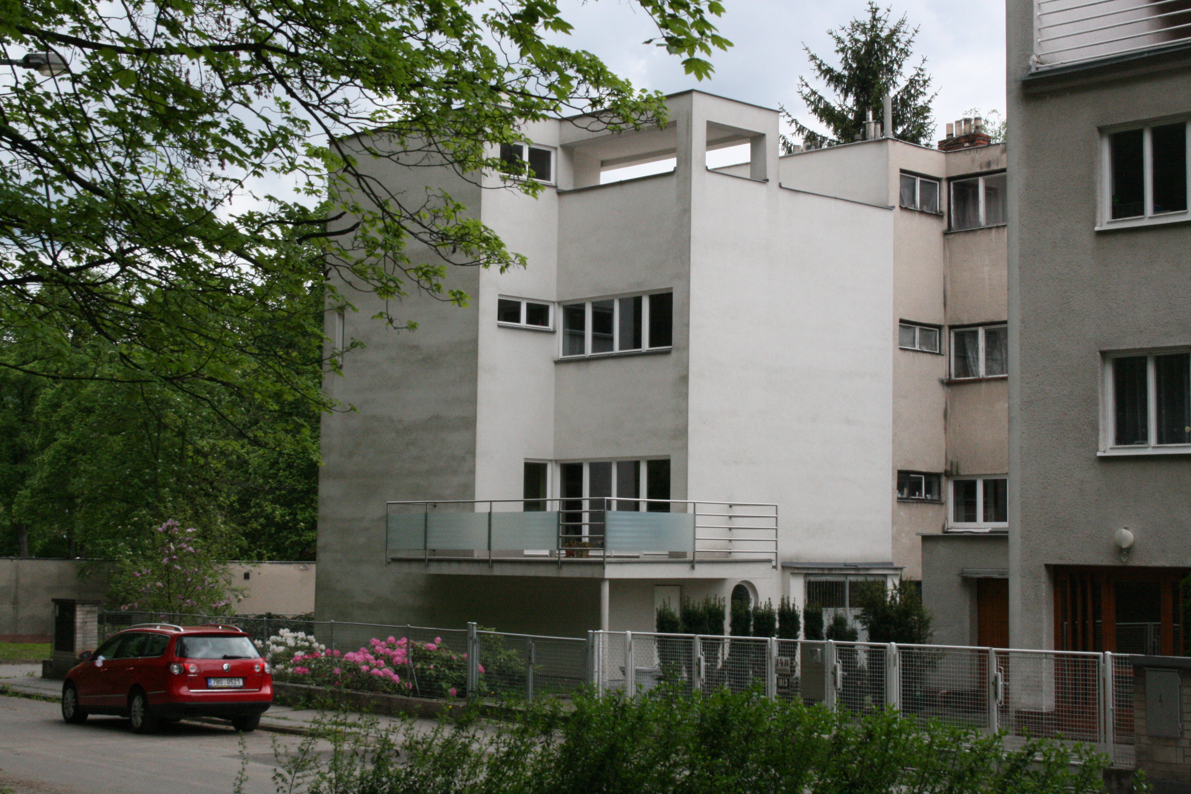 "Nový dům" (New House) settlement - 16 functionalist houses built in 1928 on occasion of an annual exhibition of contemporary culture, Brno, Czech Republic. Česky: Kolonie Nový dům - obytný komplex 16 funkcionalistických rodinných domků zbudovaných v roce 1928 v rámci jubilejní výstavy soudobé kultury. Dům od architekta Josefa Štěpánka na rohu ulic Šmejkalova a Petřvaldská, Brno-Žabovřesky.